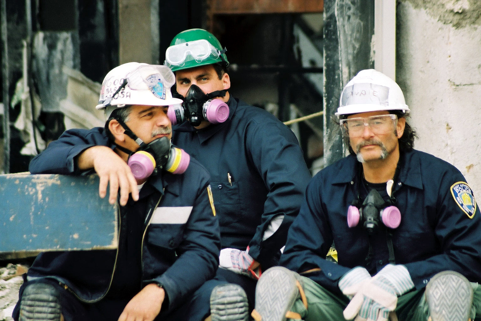 New York, NY, September 27, 2001 -- The New York Port Authority play a vital role in the clean up effort at the World Trade Center. Photo by Bri Rodriguez/ FEMA News Photo